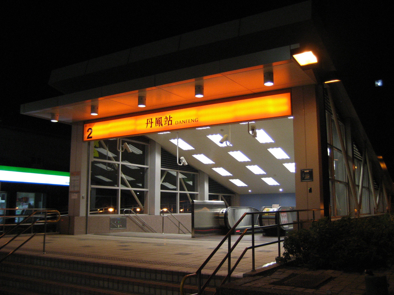 Exit 2 at night, Danfeng Station, Taipei MRT.